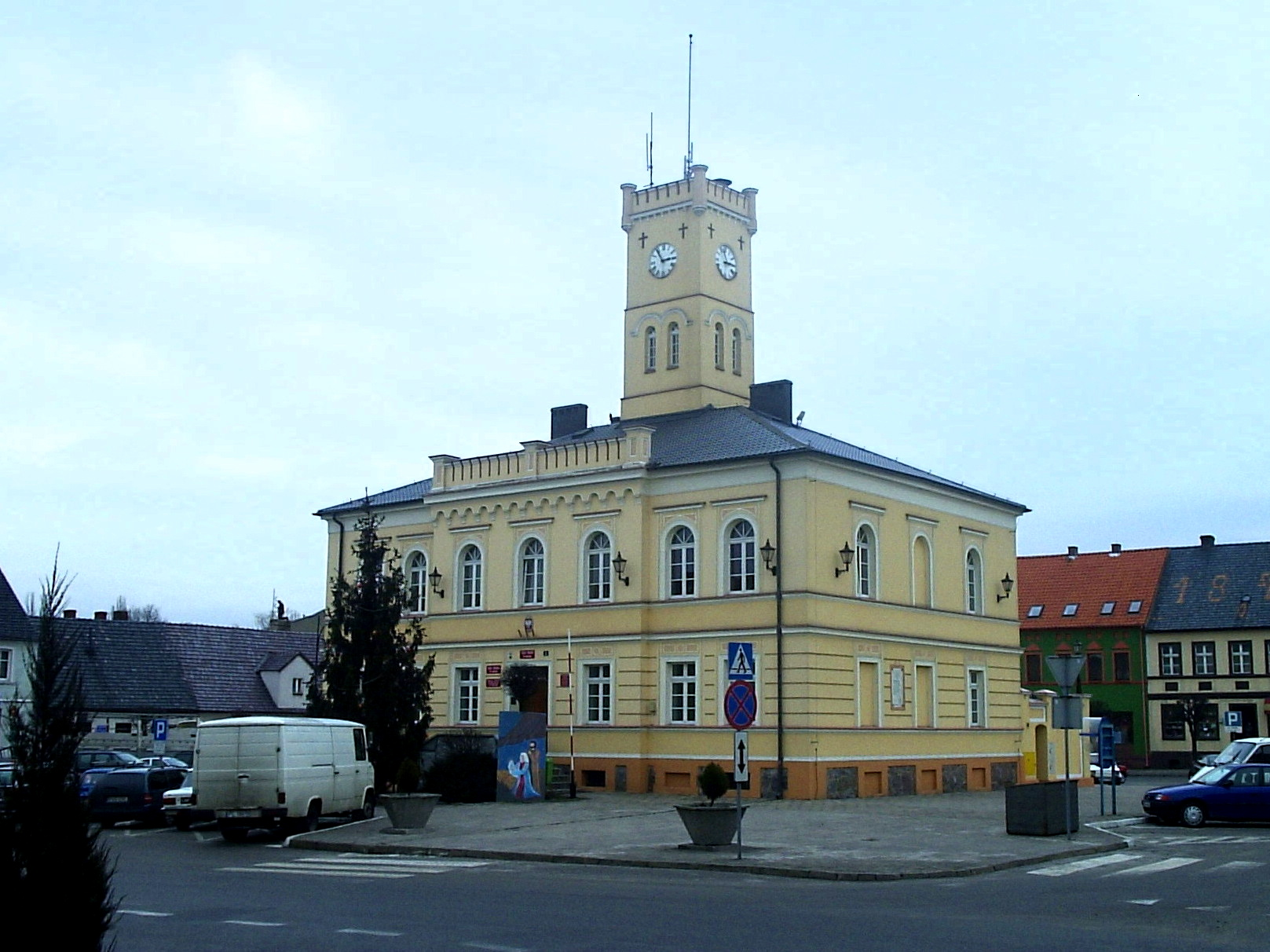 Town Hall in Krobia, Poland